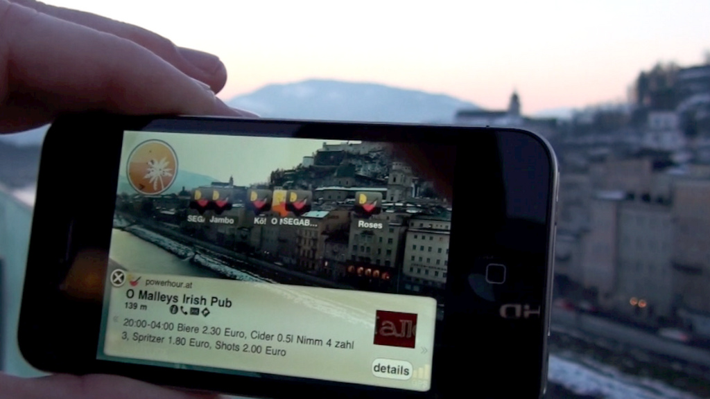 This picture shows the Wikitude World Browser on the iPhone looking at the Old Town of Salzburg. Computer-generated information is drawn on top of the screen. This is an example for location-based Augmented Reality.